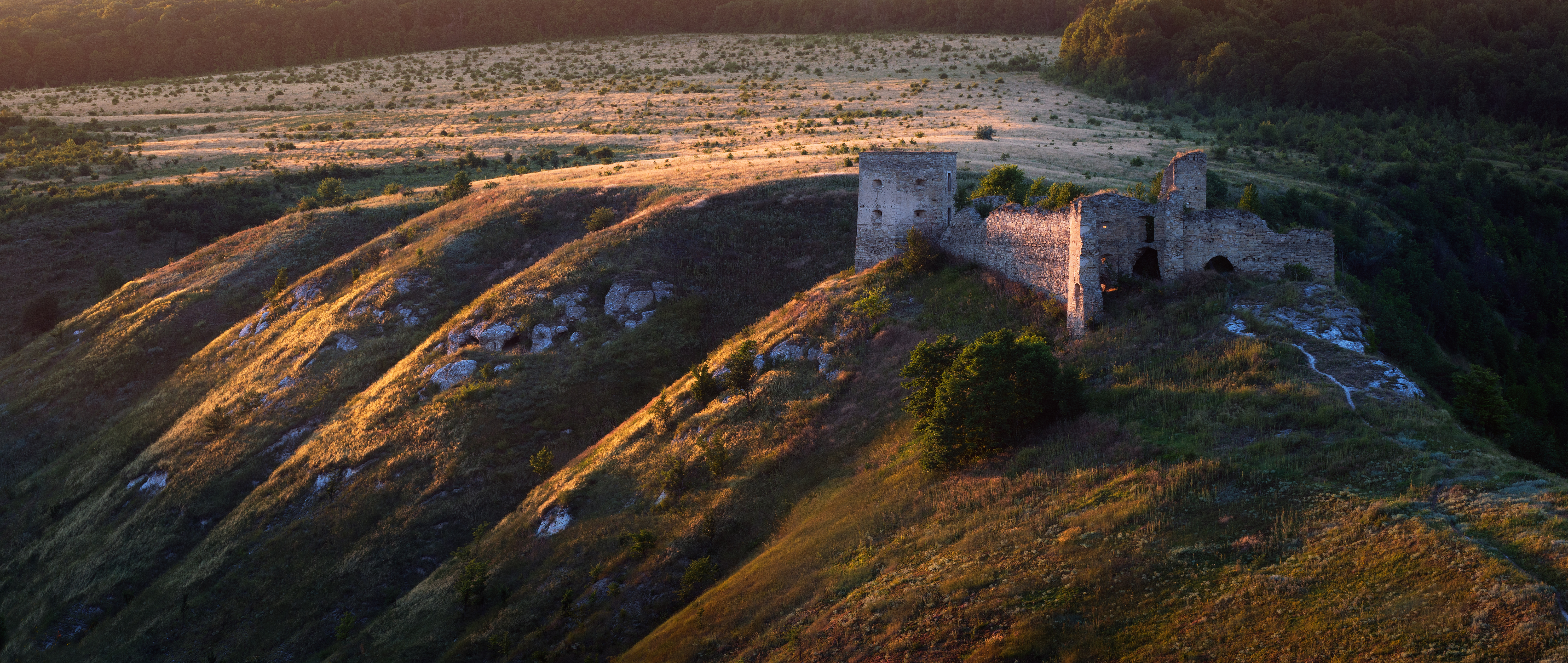 Kudryntsi Castle in the evening light, Ukraine